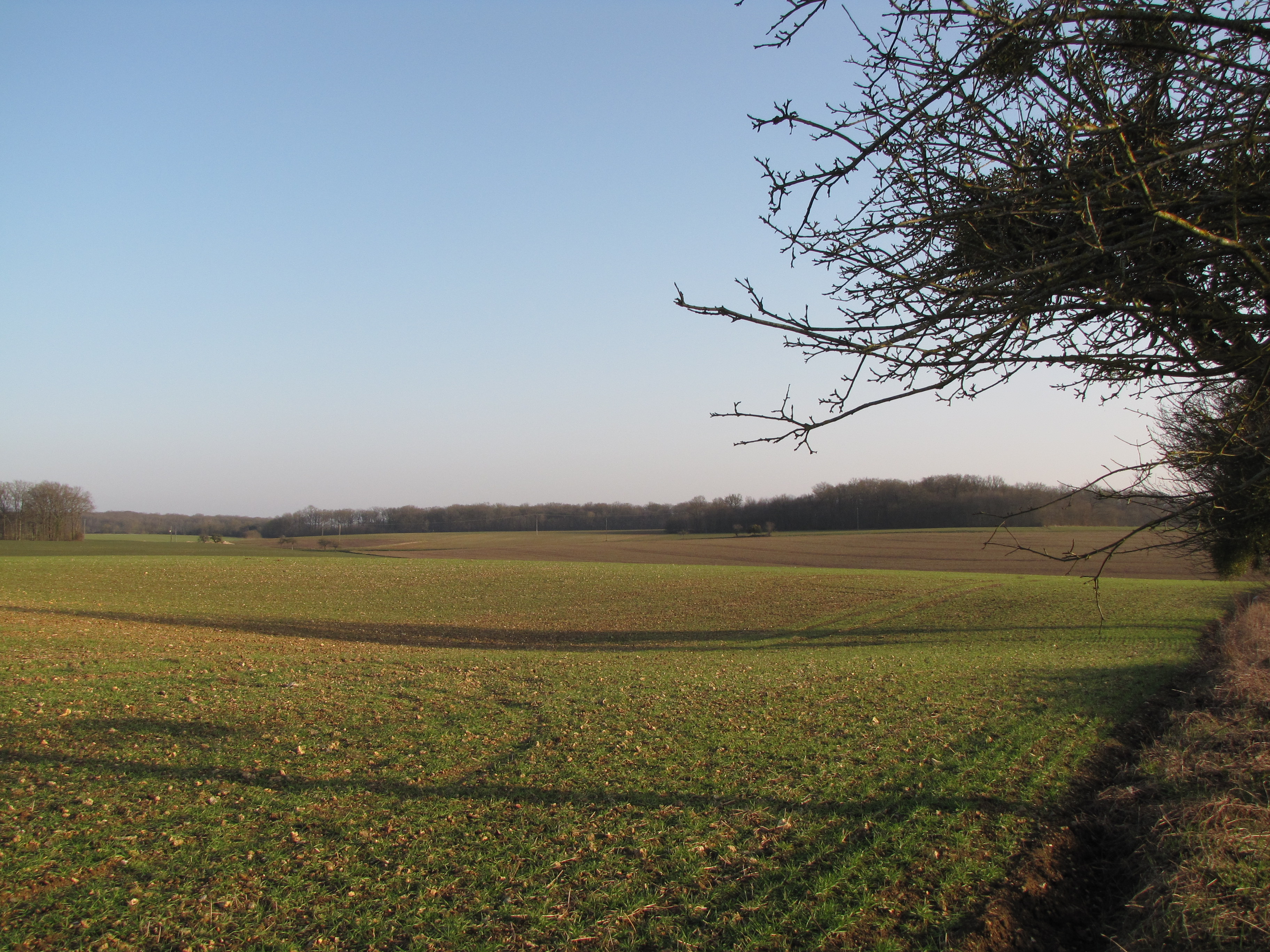 Sinkhole near Marchais-Beton, north of Yonne departement, France. Two sinkholes frame the D119 road at that place; this one is on the east side of the road. It's the smallest, and has remained the most visible because it is not big enough to prevent working the land (the other one, on the other side of the road, is far steeper and cannot be tilled, so is invaded by trees and is used as dumping ground for "clean building materials").